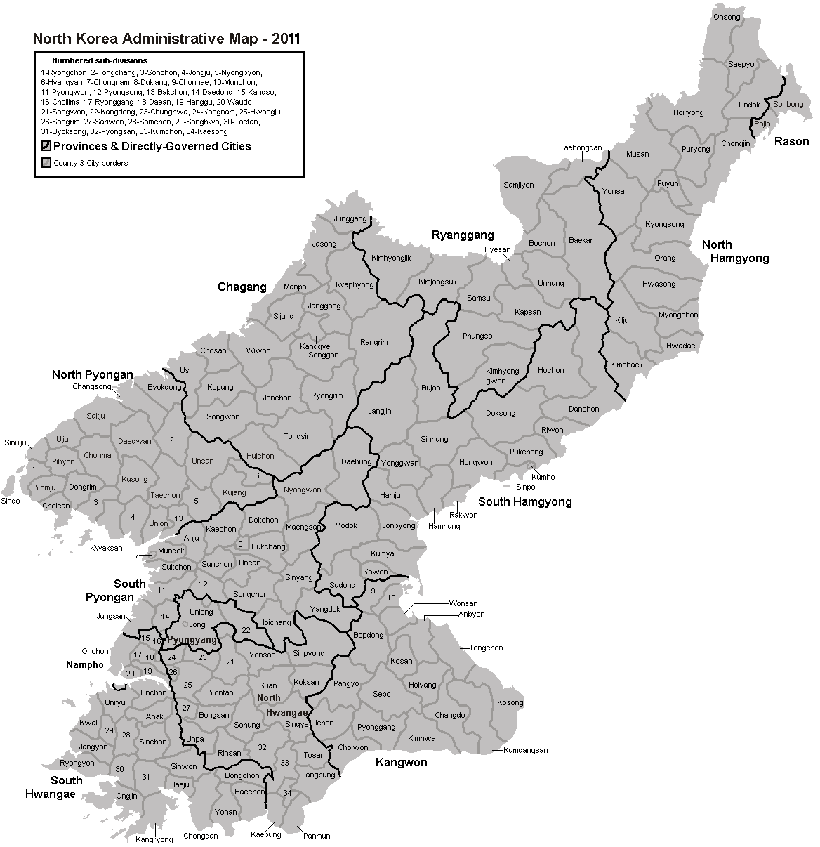 A map of North Korea with second-level divisions in 2011.